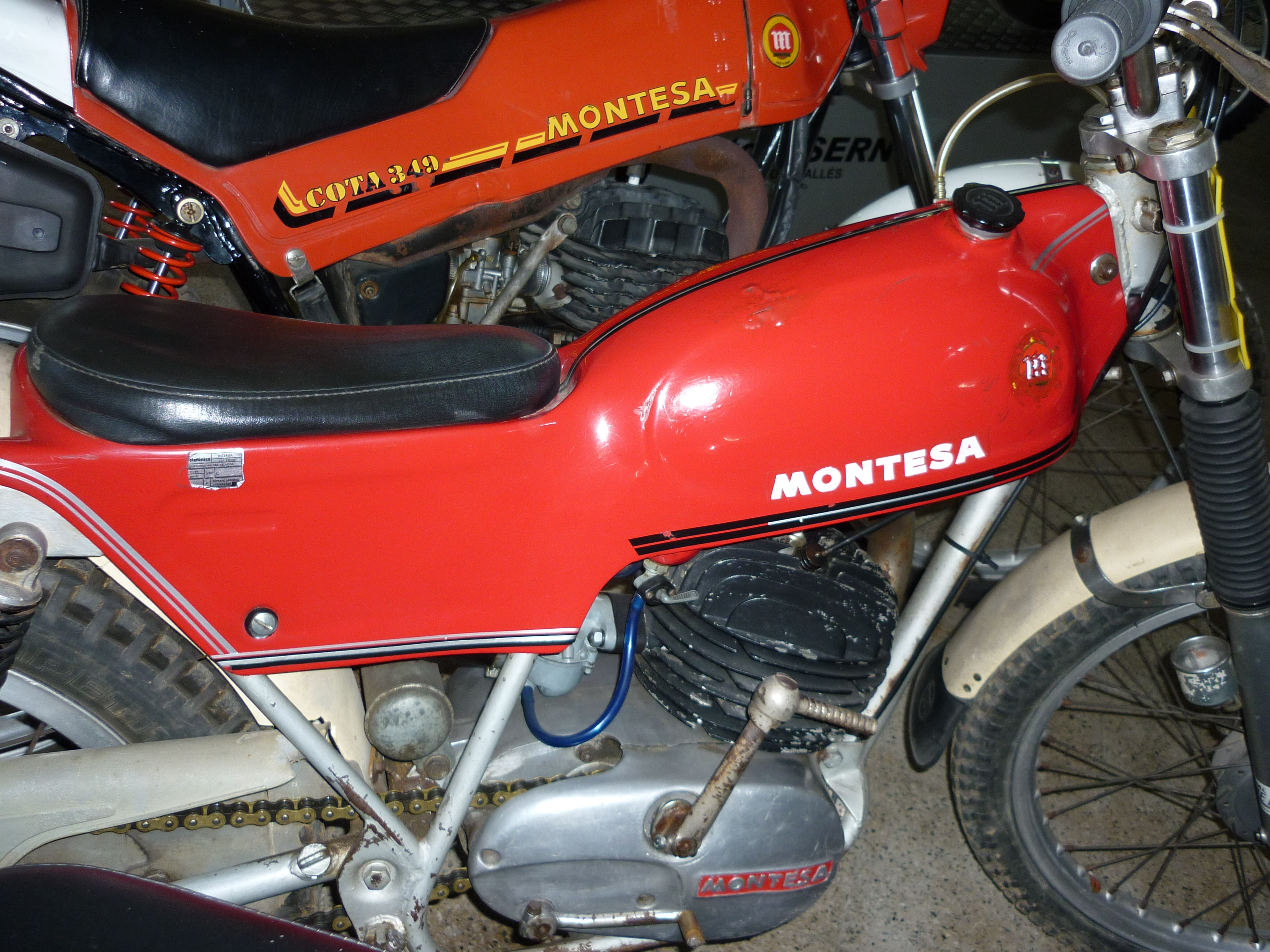 Montesa Cota 247, 247.69 cc (1970).Isern Motorcycle Museum, Mollet del Vallès (Catalonia).